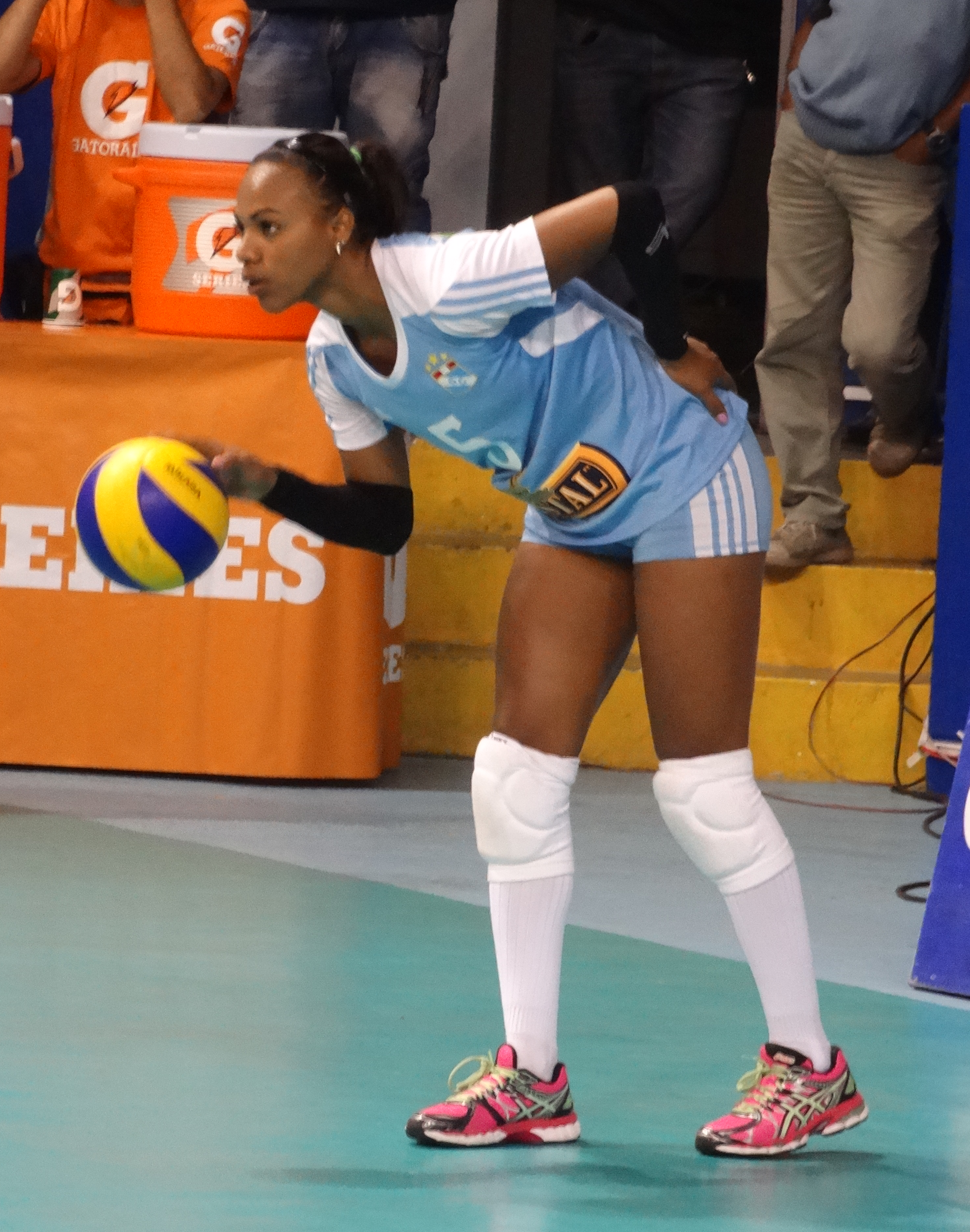 Peruvian volleyball player Shiamara Almeida